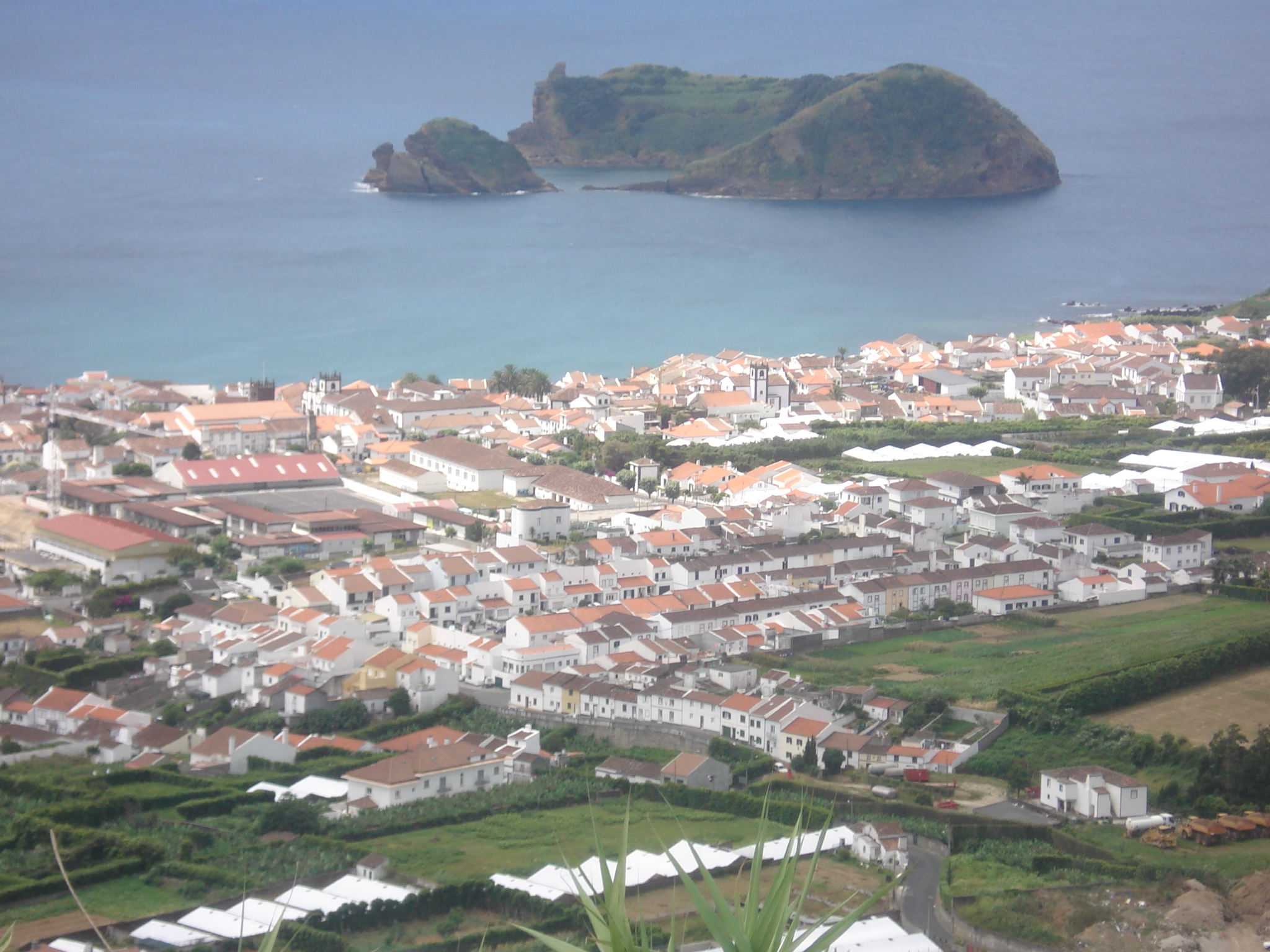 A view to the centre of the civil parish of São Miguel, municipality of Vila Franca do Campo (Azores), Portugal